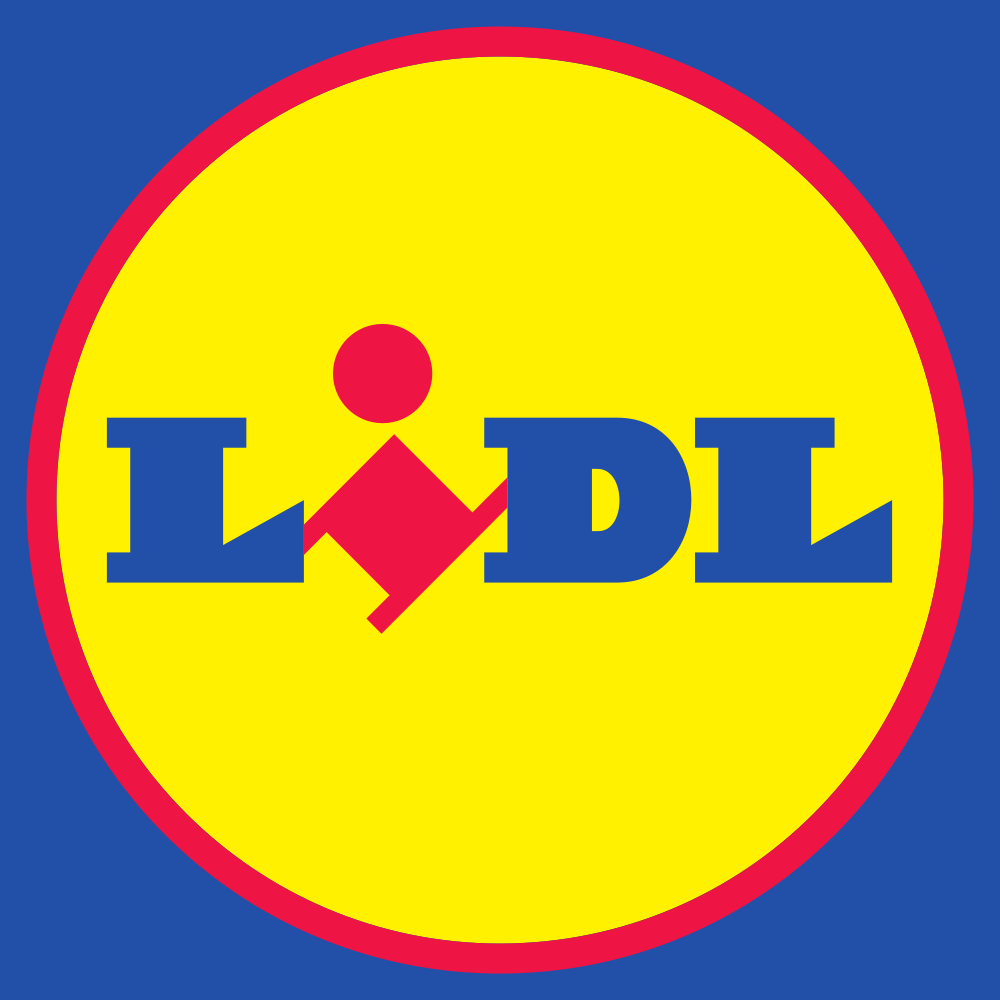 The Lidl logo, created by me in Photoshop.